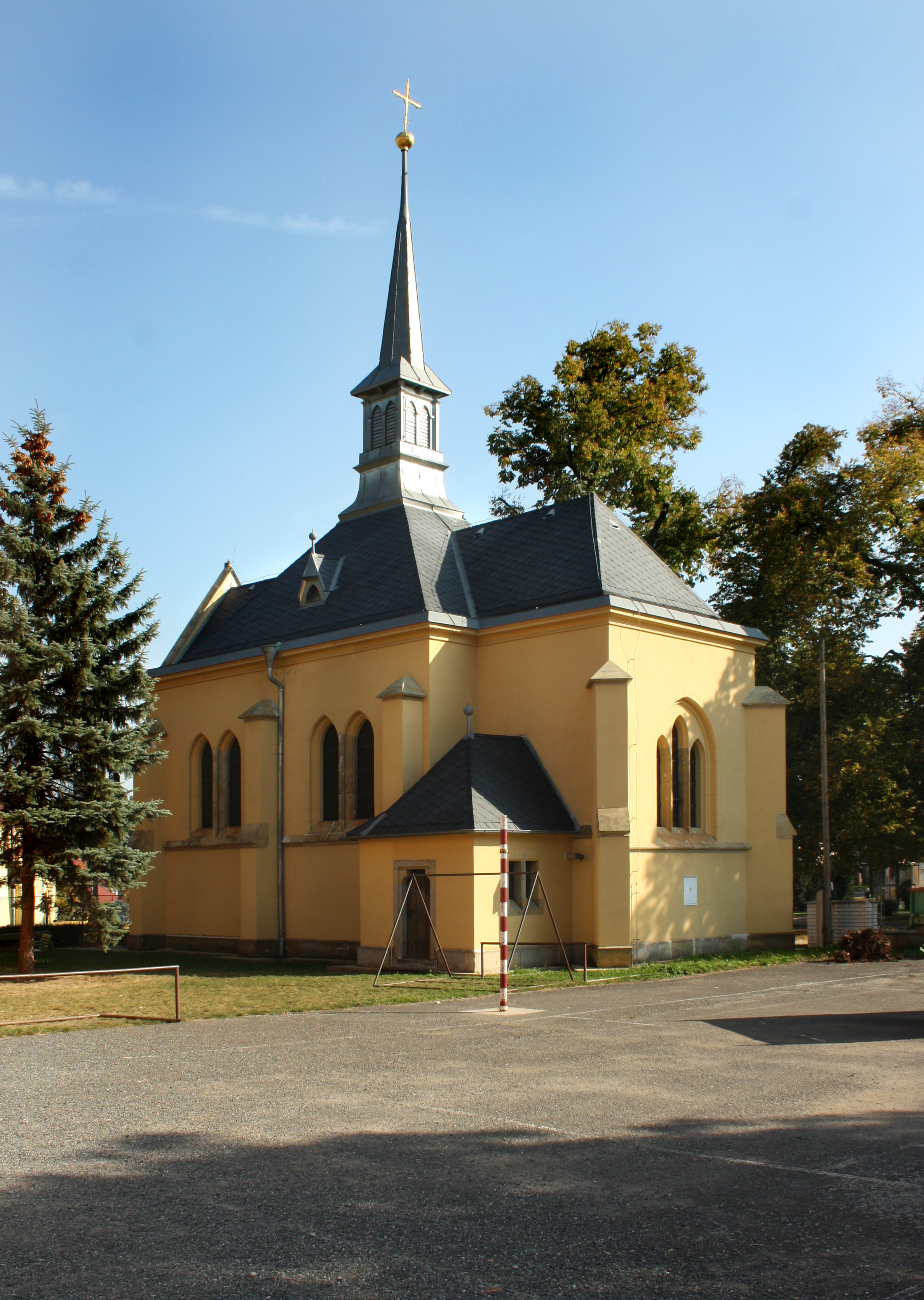 St. Florian's Church in Lázně Toušeň, Czech Republic